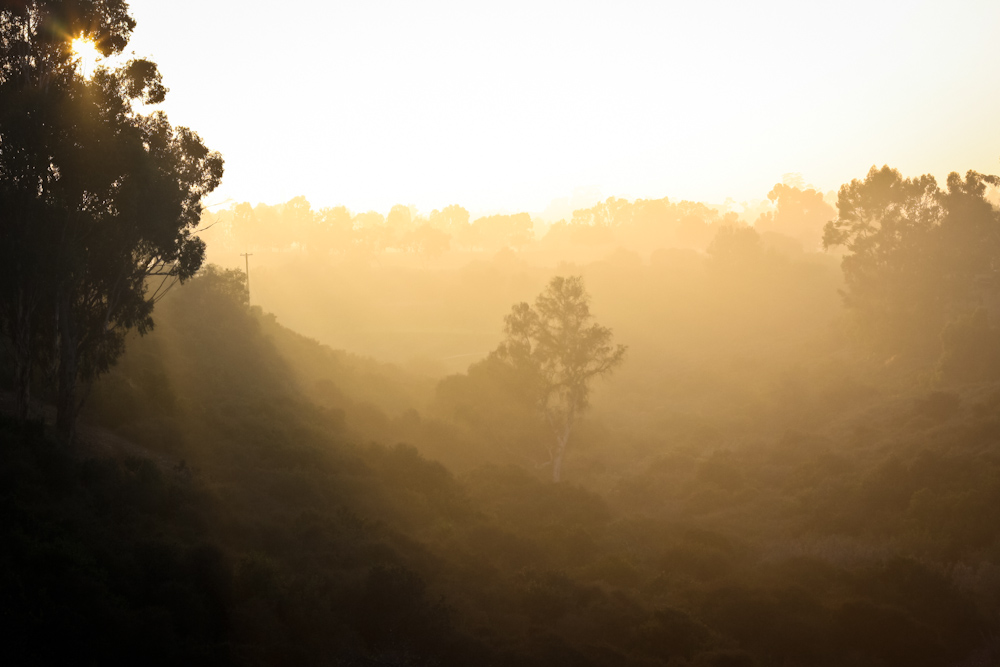 Switzer Canyon in San Diego, California viewed west from the 30th Street causeway, during a foggy sunset on New Year's Eve 2011.